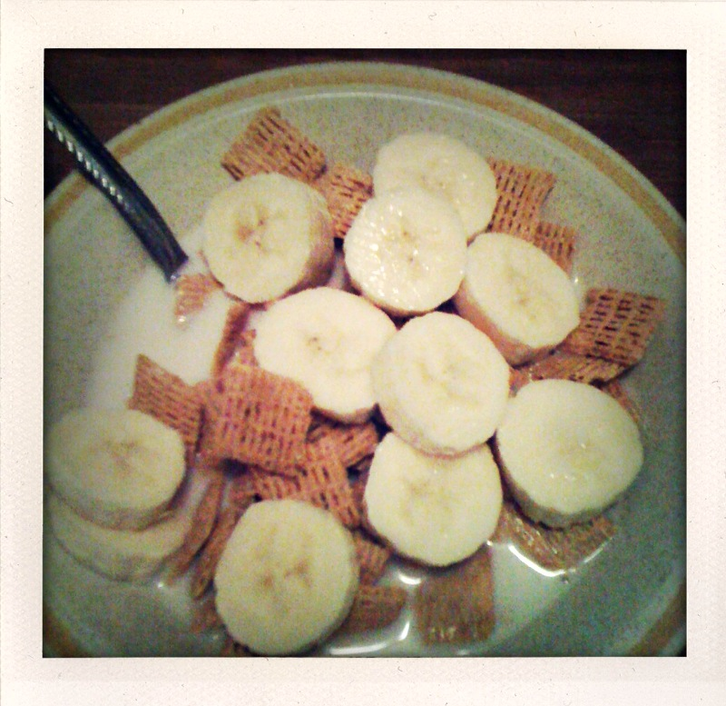 Life is a breakfast cereal made of whole grain oats, distributed by the Quaker Oats Company and introduced in 1961.